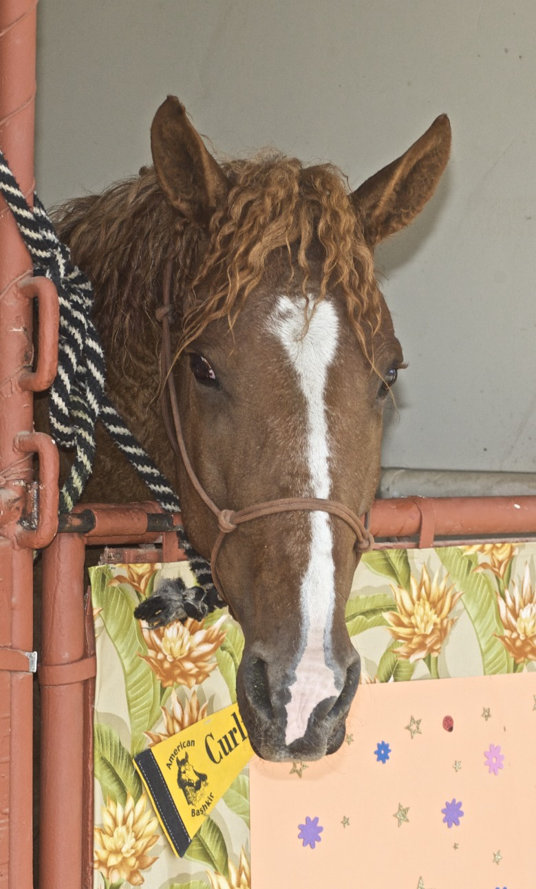 Bashkir Curly Horse